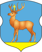 Coat of Arms of Cyryn